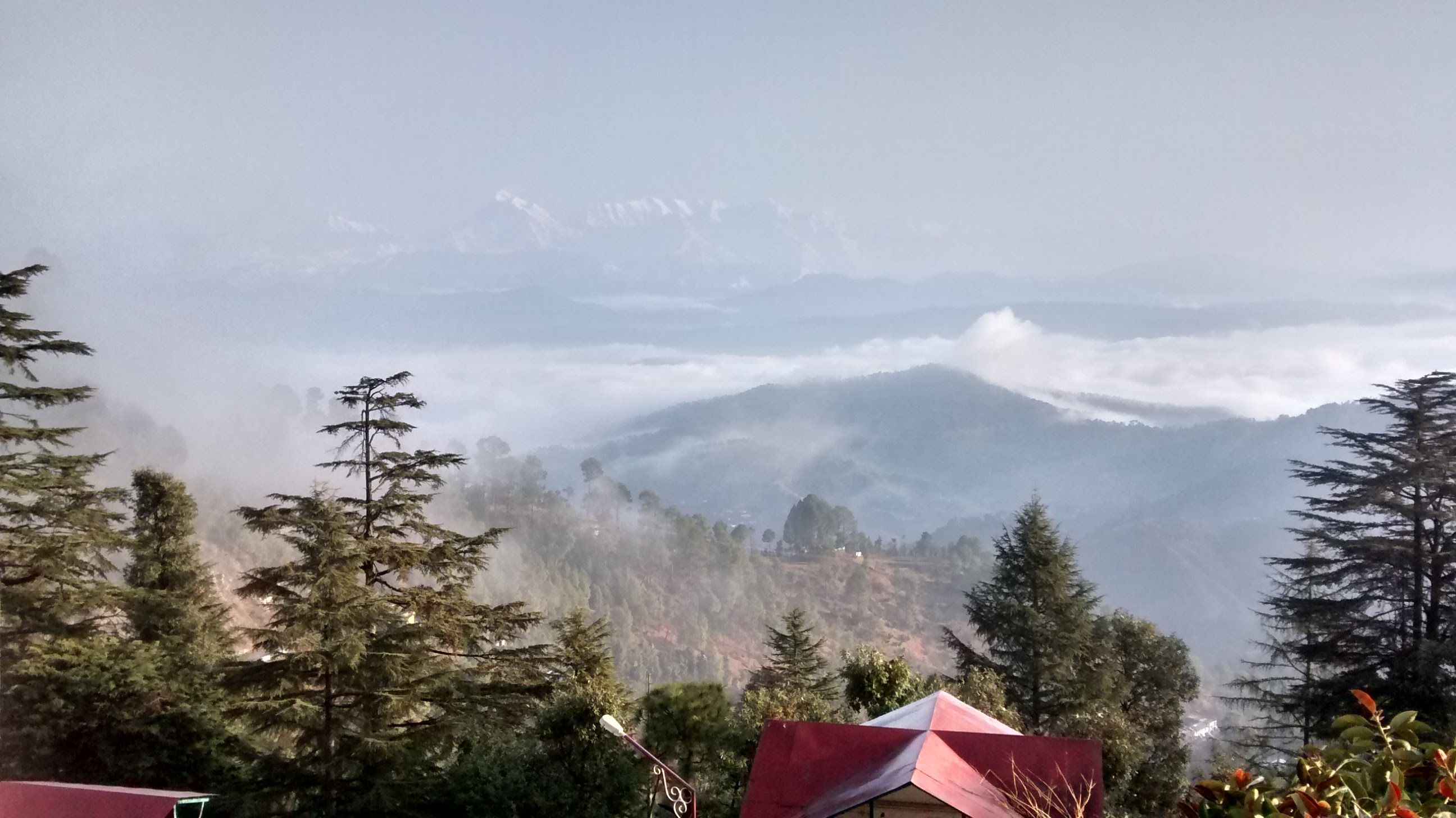 View of snow-peaks of Himalayas from Lakshmi Ashram, Kausani